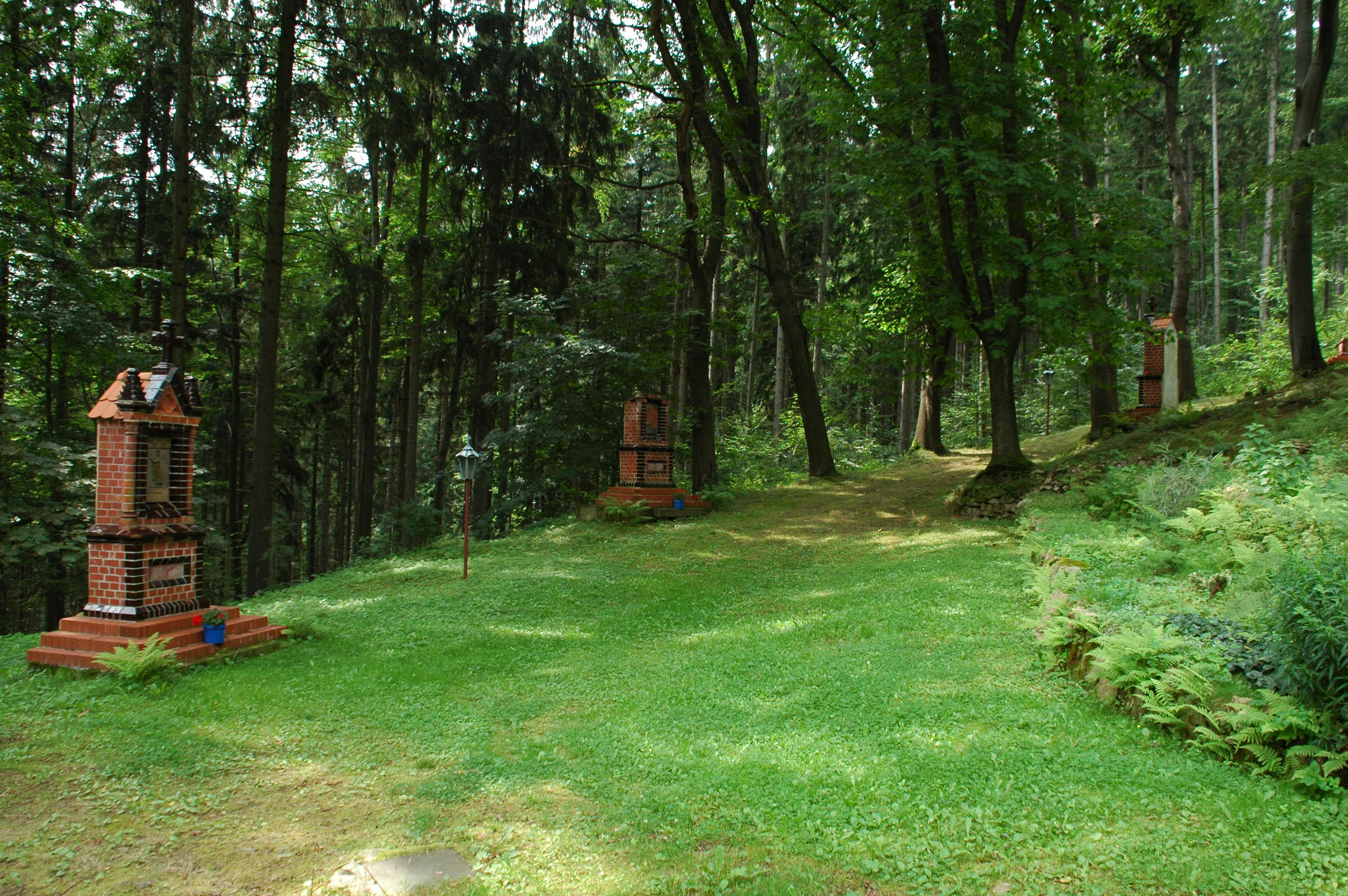 Radochów, Poland near Lądek-Zdrój – calvary on Cierniak hill